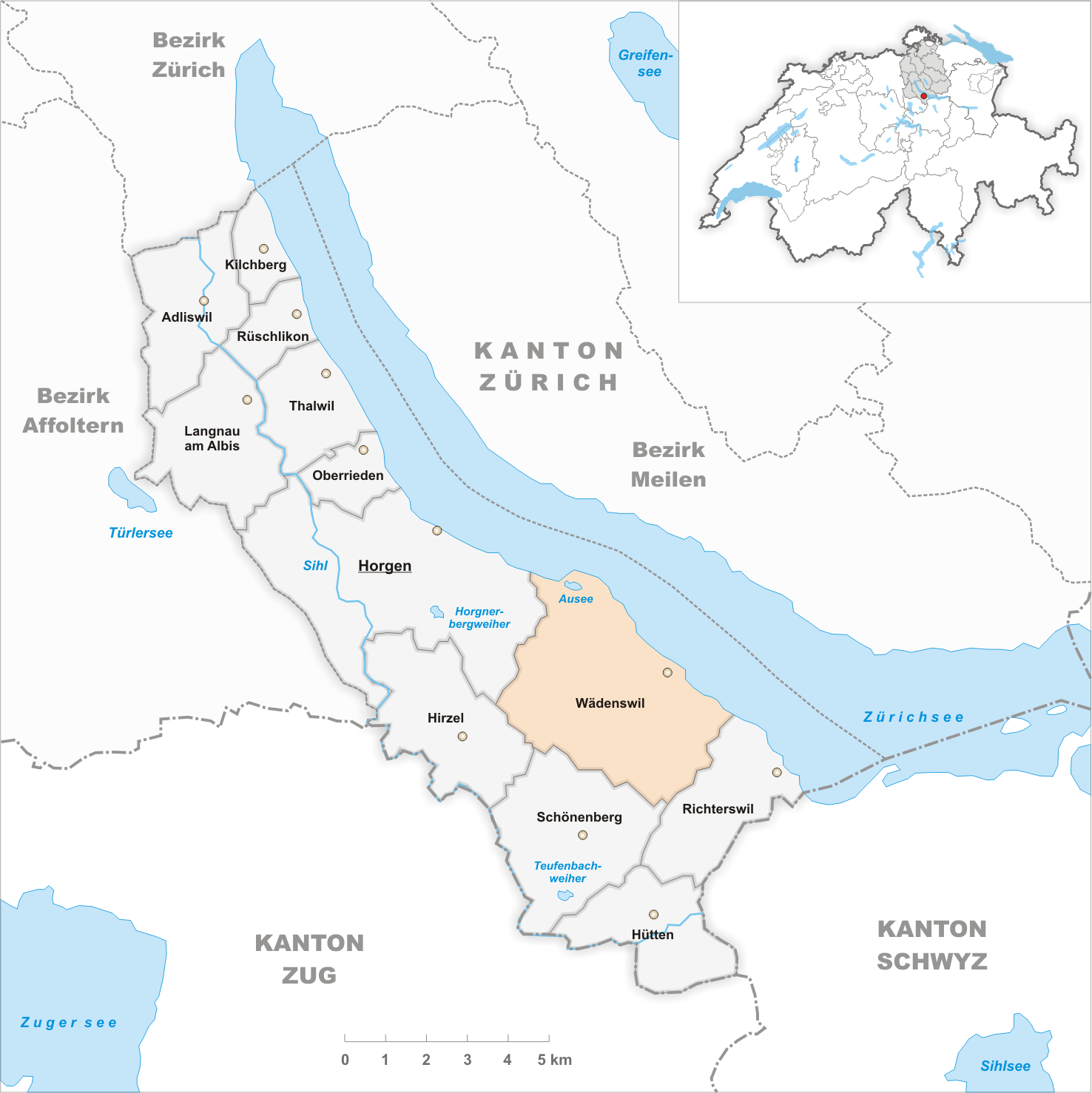 Municipality Wädenswil